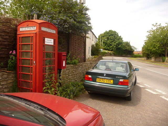 Yenston: postbox № BA8 114 and phone, High Street Yenston's posting and phoning facilities, on the corner of the High Street and Chapel Lane. The postbox is emptied on weekdays at noon, and half an hour earlier on Saturdays.